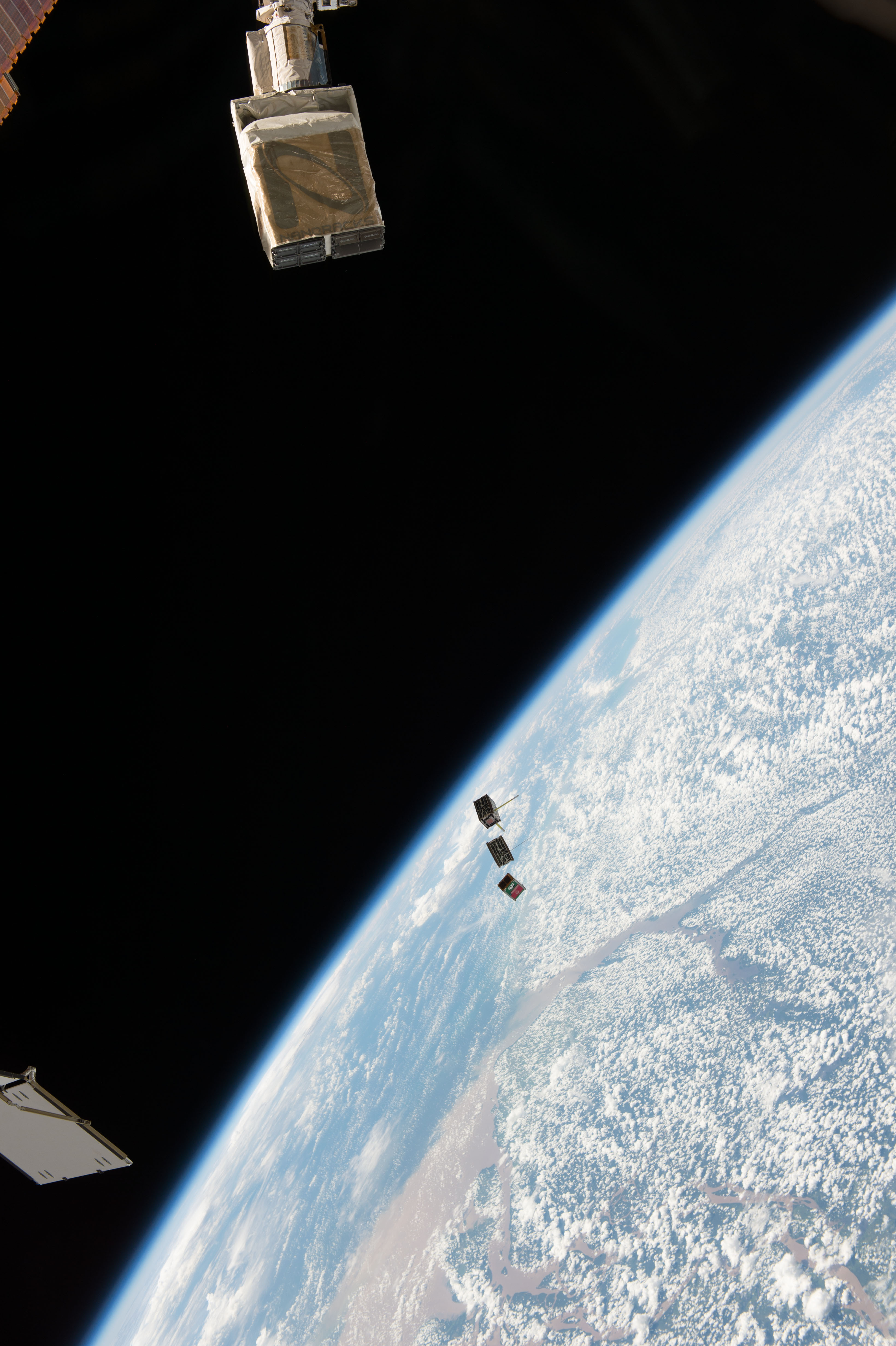 CubeSats fly free after leaving the NanoRacks CubeSat Deployer on the International Space Station. Seen here are the STMSat-1 and two NODeS satellites. The St. Thomas More (STM)Sat-1 mission is an education mission to provide hands-on, inquiry-based learning activities with an on-orbit mission to photograph the Earth and transmit images to our primary ground station and to remote ground stations throughout the country. The Network & Operation Demonstration Satellite (NODeS) test out the potential for using multiple, small, low-cost satellites to perform complex science missions.